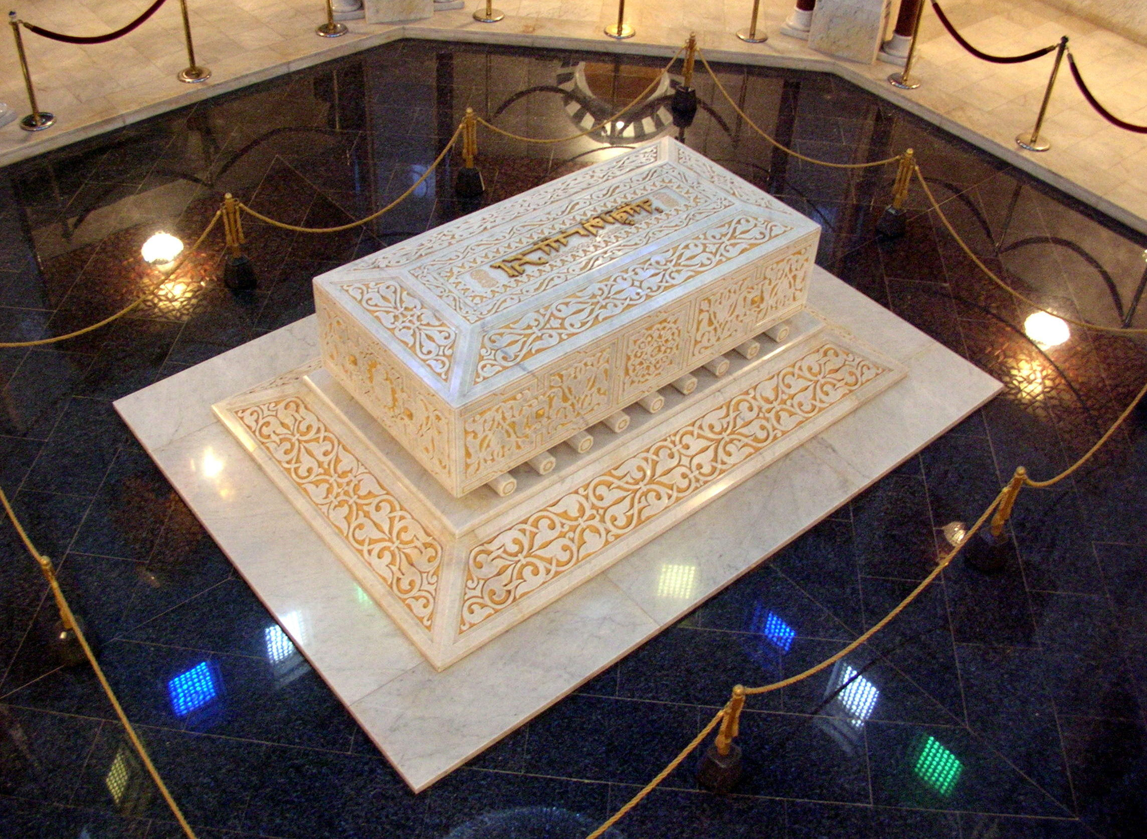 Bourguiba Mauseleum, Monastir, Tunisia